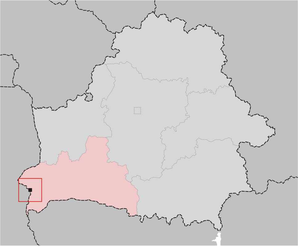 Location of Brest, Belarus